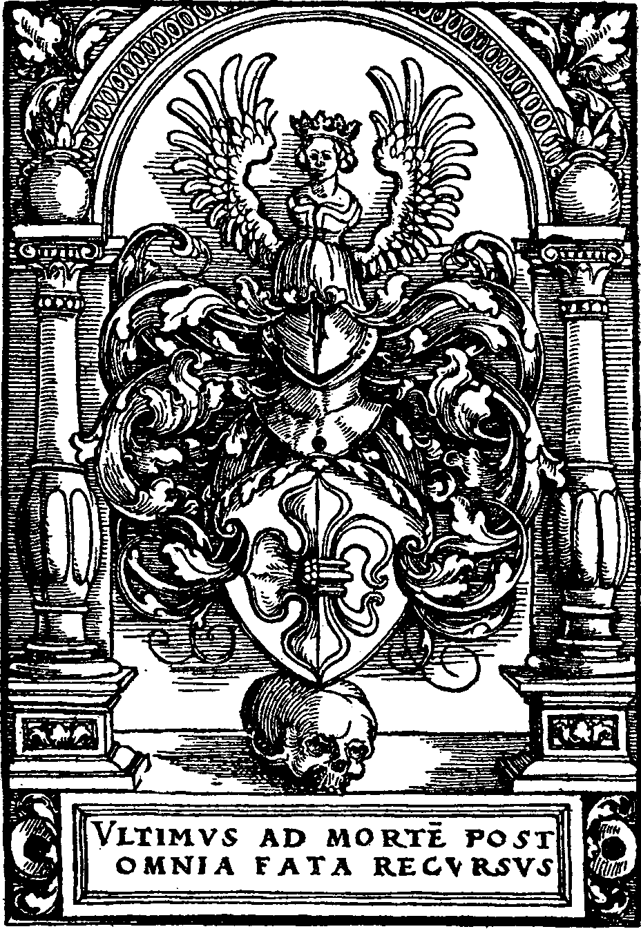 Book plate of Lazarus Spengler